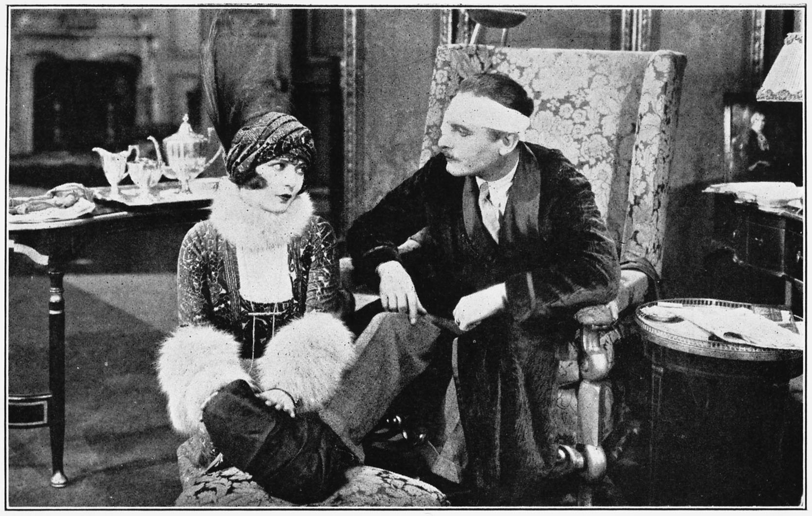 Suzette (Renée Adorée) makes the tedious hours of the wounded Sir Nicholas Thormonde (Lew Cody) seem less monotonous. (A scene from "Man and Maid" for Metro-Goldwyn-Mayer)